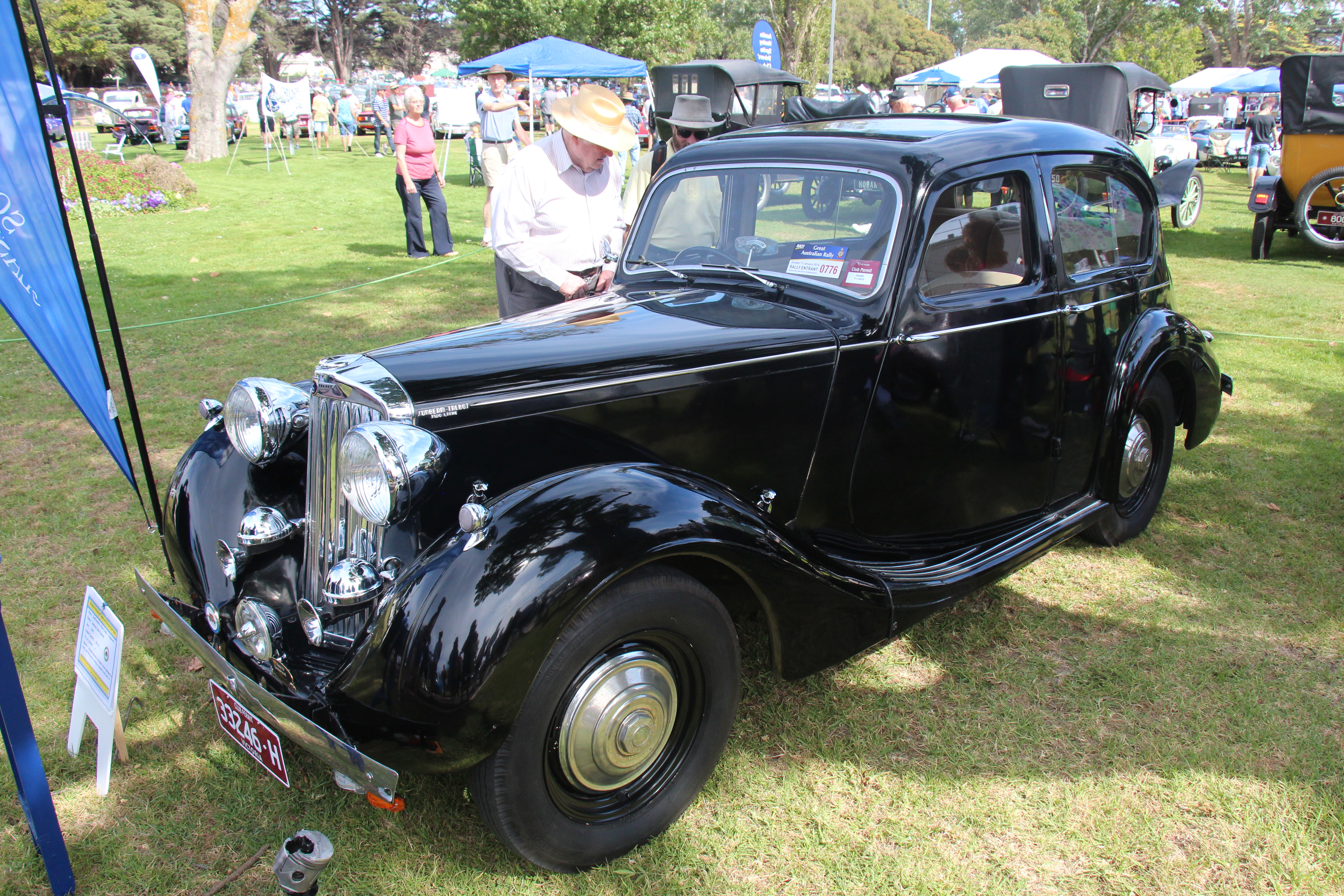 The Sunbeam-Talbot 2 litre was manufactured in the United Kingdom from 1939-48. It was offered in 4-light sports saloon, drophead coupé and 4-seater sports tourer body styles. Production was suspended due to the WW II and was resumed in 1945. The 2 Litre utilised the styling and chassis of the Sunbeam-Talbot Ten, the wheelbase was 3½ inches longer than the Ten. 1,306 2 Litre cars were produced by 1948, in which year it was replaced by the Sunbeam-Talbot 90 Engine; 52hp 1944cc 4 cyl sidevalve from the Hillman 14 (56hp after the war)